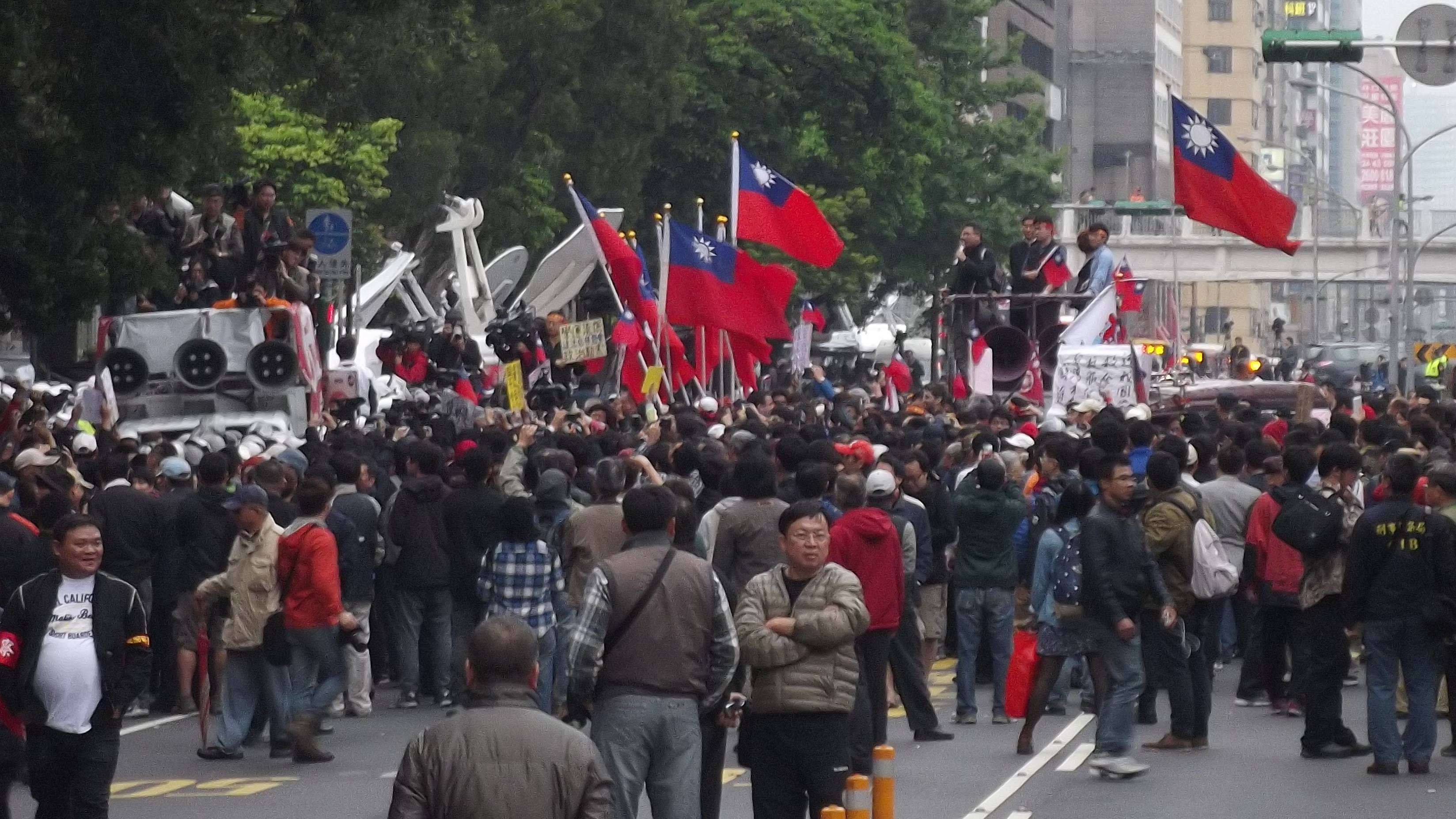 An-Le Chang led China Unify Party and pan-communism supporters made a small protest against anti-CSTA territory in Taipei.